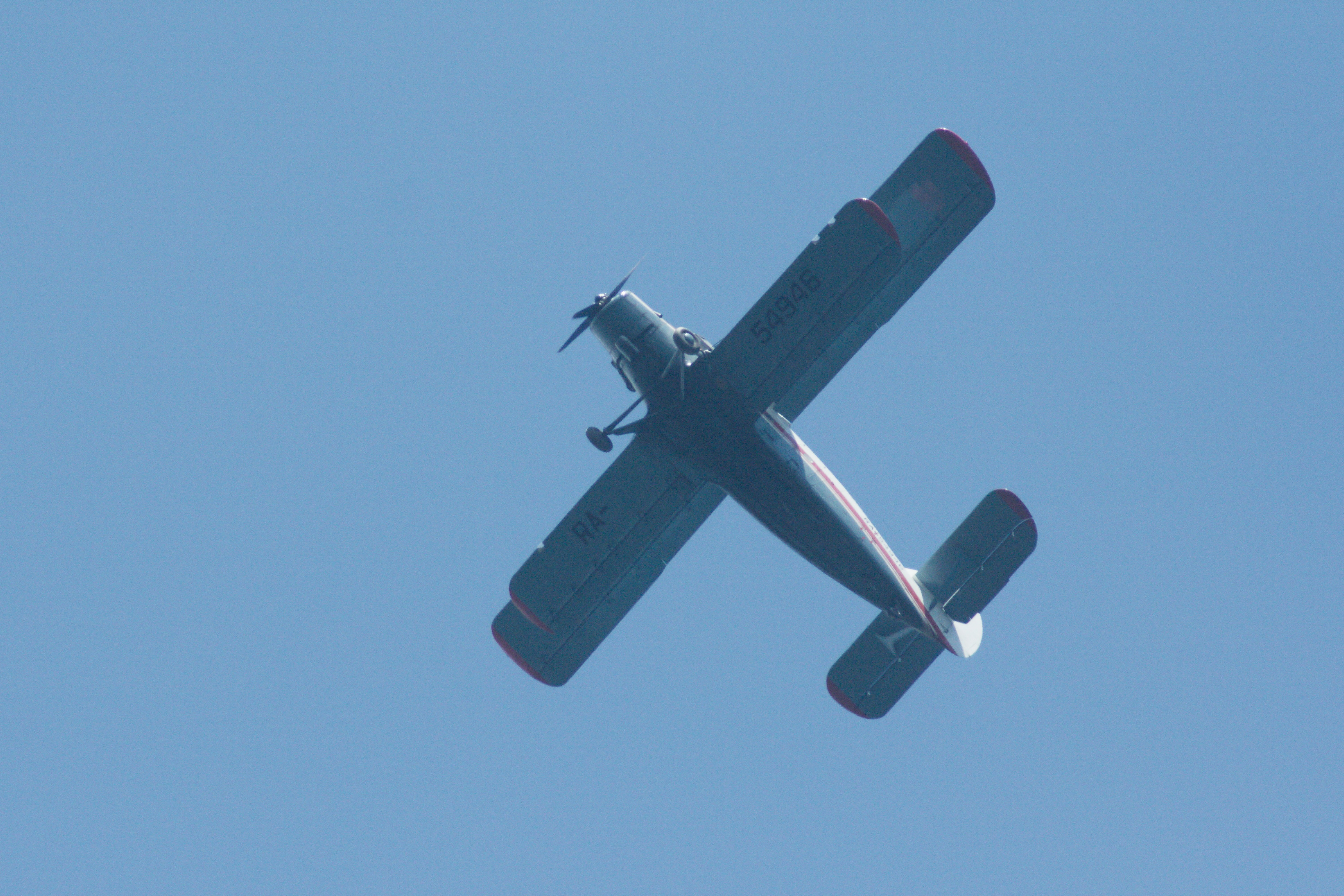 Сибиа Ан-2 / Sibia An-2 RA-54946 An Antonov An-2 flying over us, inspecting the extent of the progressing fire. An-2 is an old and reliable workhorse of the Russian civil aviation - it made its maiden flight in 1947. When it flew over us, there was a strange feeling of traveling back in time - pristine taiga, absolutely no one around, navigating with a map and compass - and being on a romantic, patriotic, and at the same time unreasonably unsafe and basically useless mission. It felt very... Soviet :)))